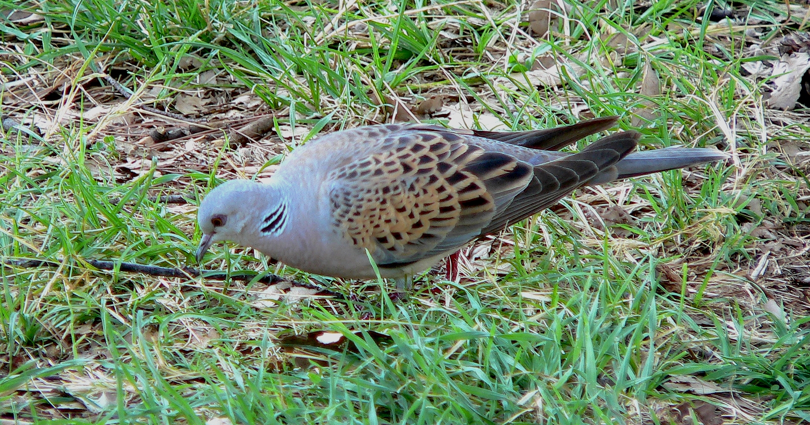 Turtle Dove in southern Istria